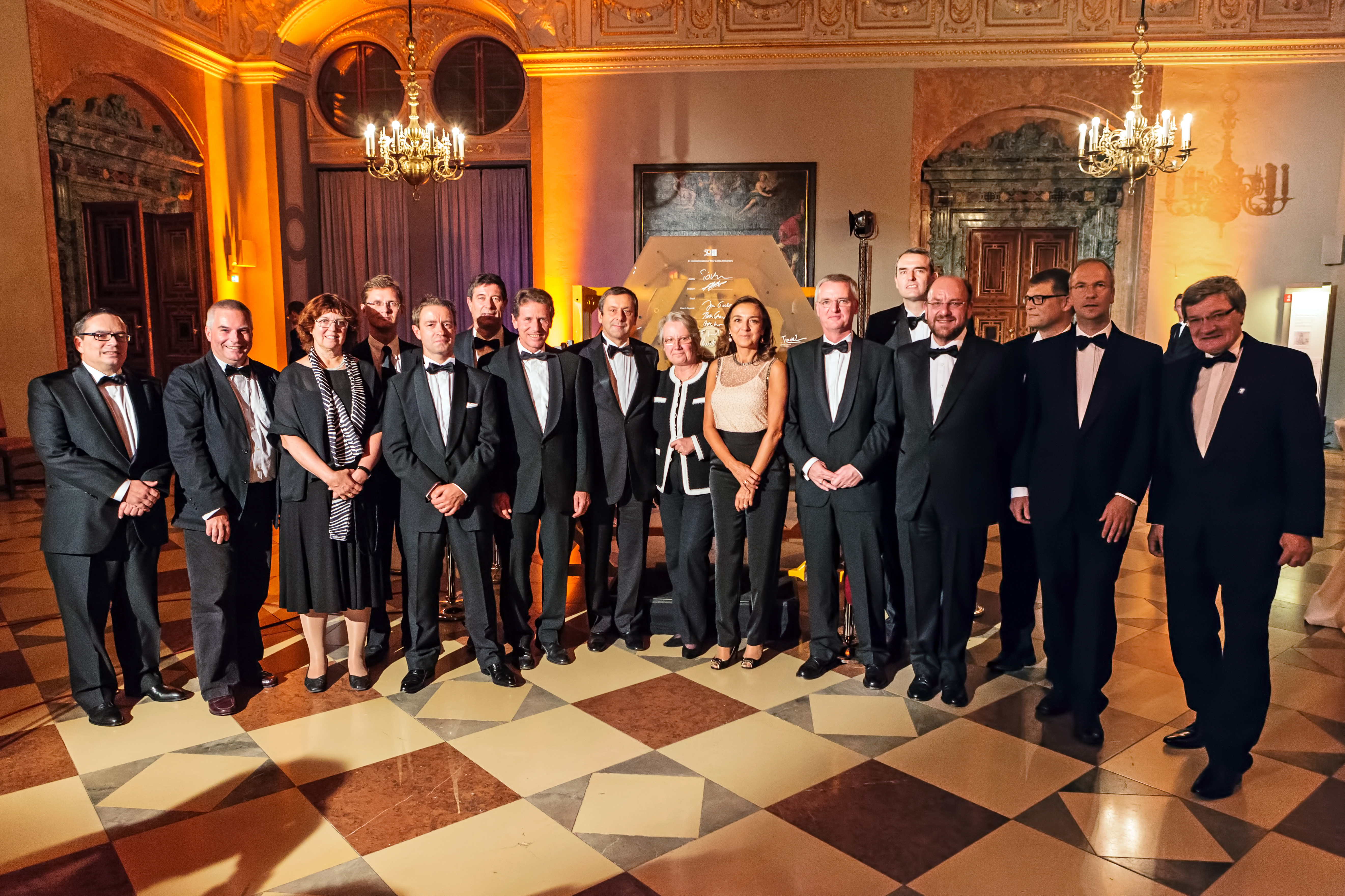 Representatives of the Member States of the European Southern Observatory (ESO) and its host nation Chile, among them seven ministers and two ambassadors, and representatives of the observatory itself, signed a prototype mirror segment of the European Extremely Large Telescope during a gala event that marked the 50th anniversary of ESO. The event took place in the evening of 11 October 2012, in the Kaisersaal of the Munich Residenz in Germany.